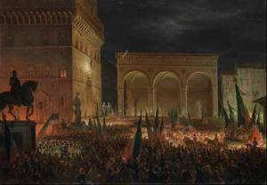 Proclamation of the Plebiscite